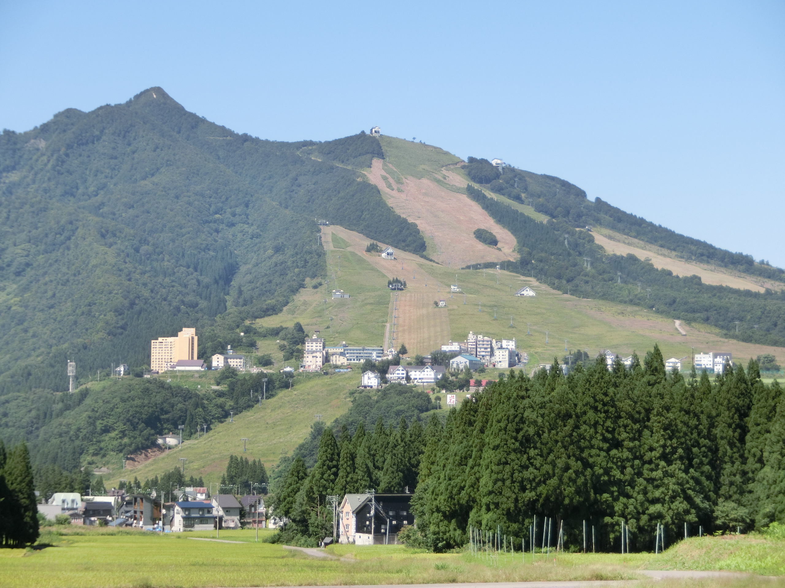 Mount Iiji seen from the SSW.